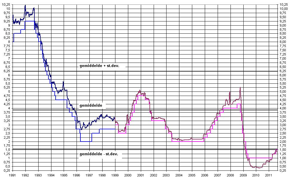 1 month Euribor